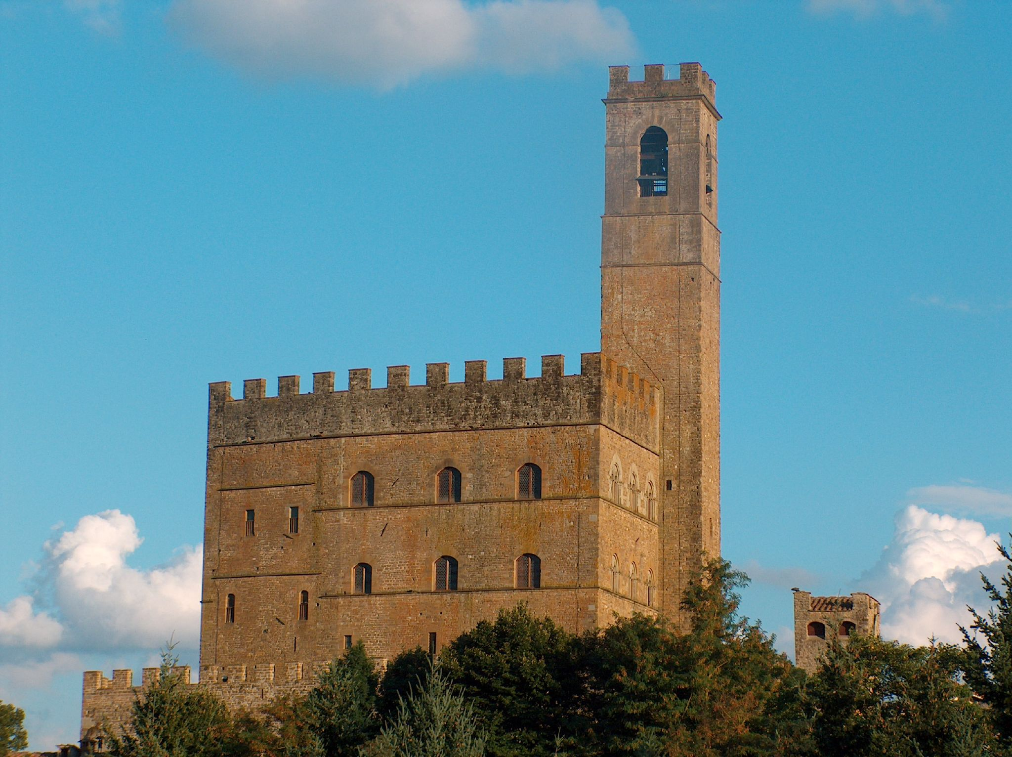 View of Gothic tower and merlons at Castle of Poppi (Castello di Poppi) — in Poppi, Tuscany.